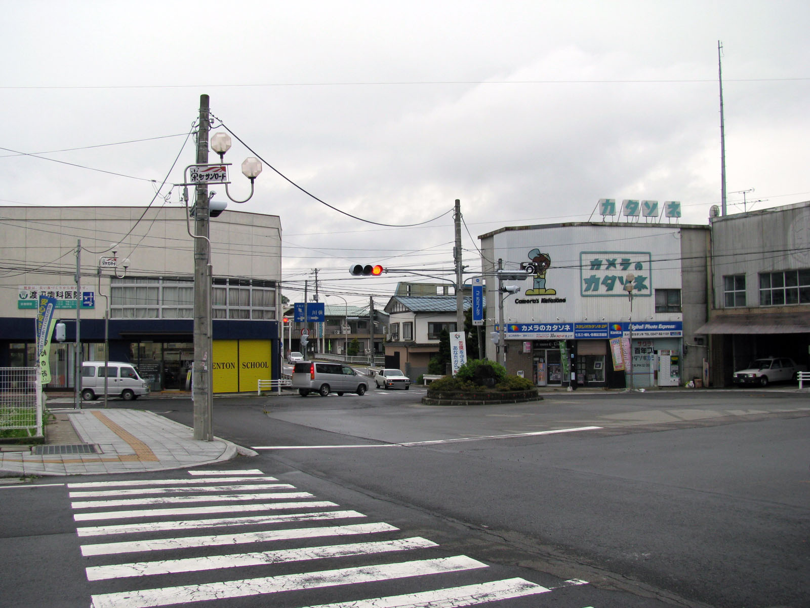 seeing from Funehiki Station exit